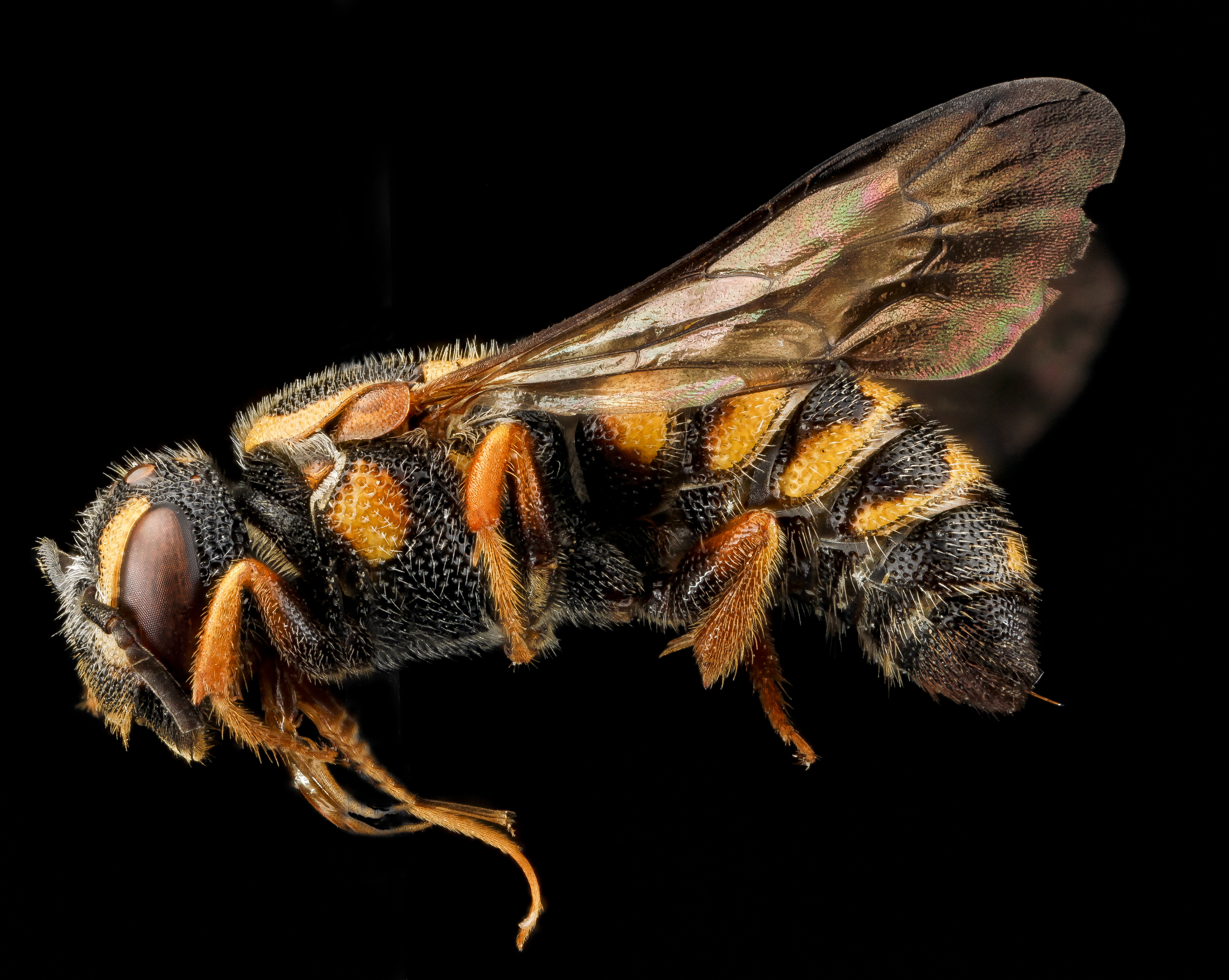 Stelis louisae, female, Prince George's county Maryland